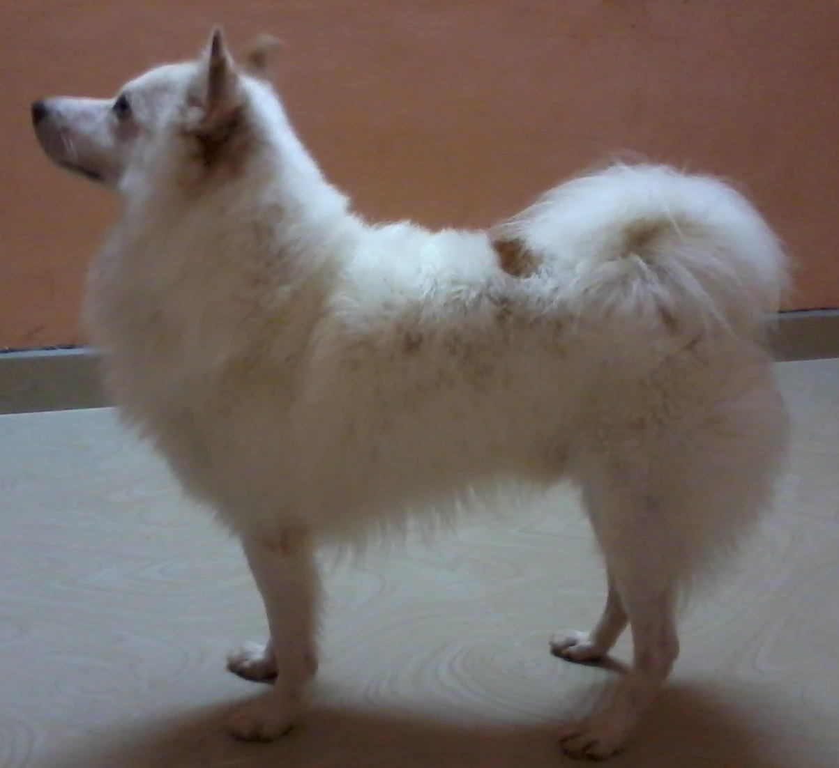 Greater Indian spitz adult (17 " at withers)